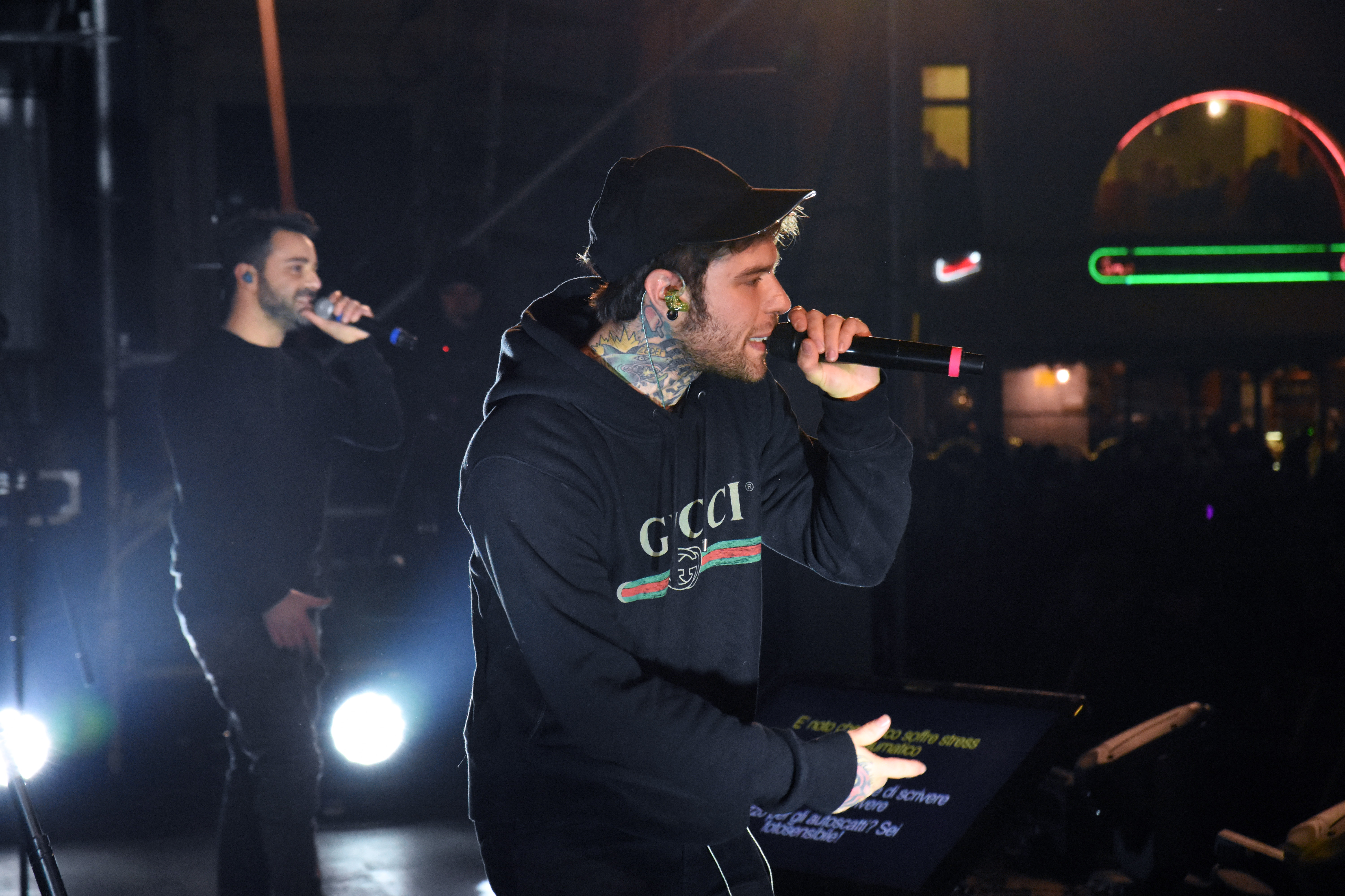 Fedez performing in Parma on 1 January 2018 for the New Year's Eve concert